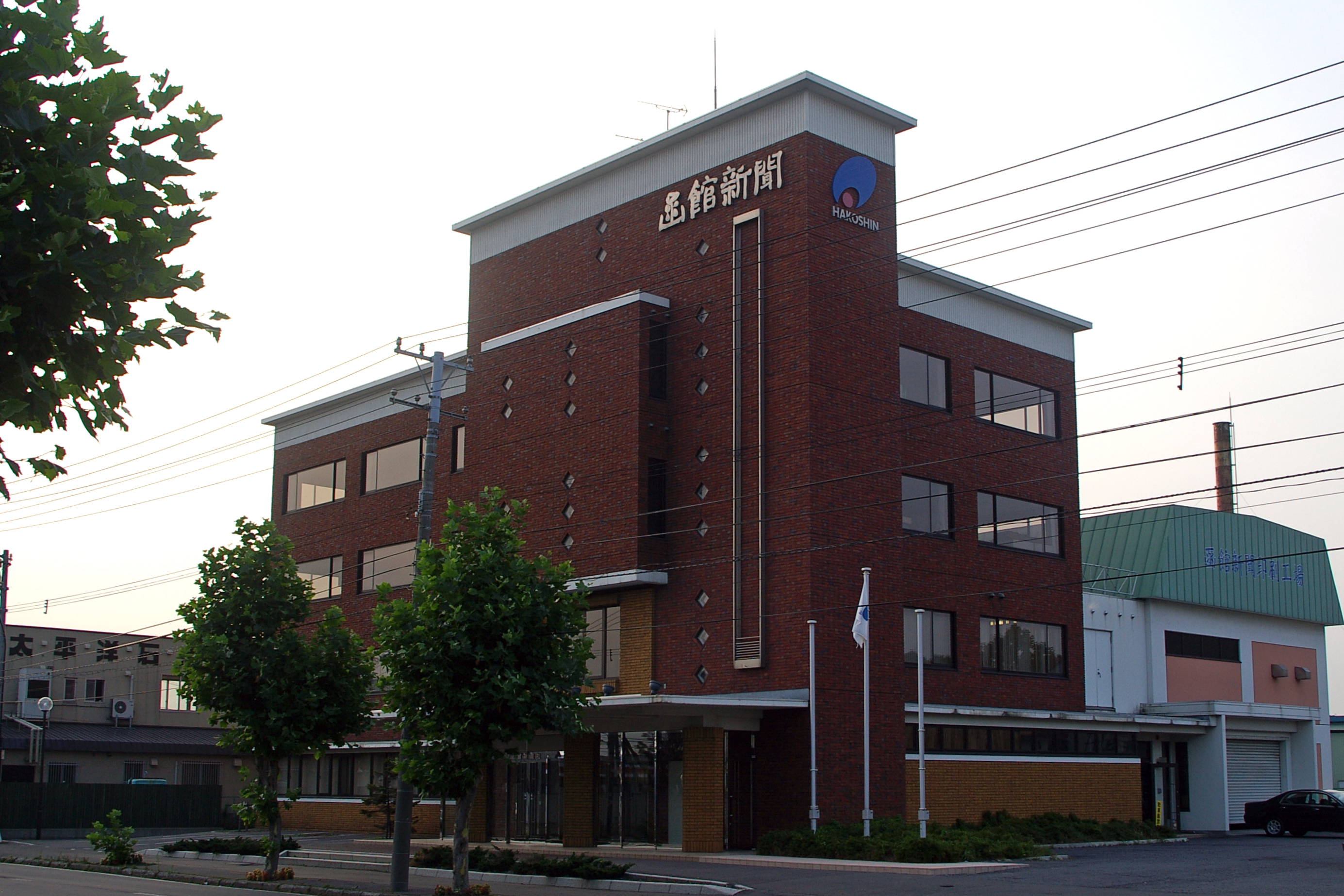 Photograph of headquarters of Hakodate Shimbun in Hakodate, Hokkaido, Japan.